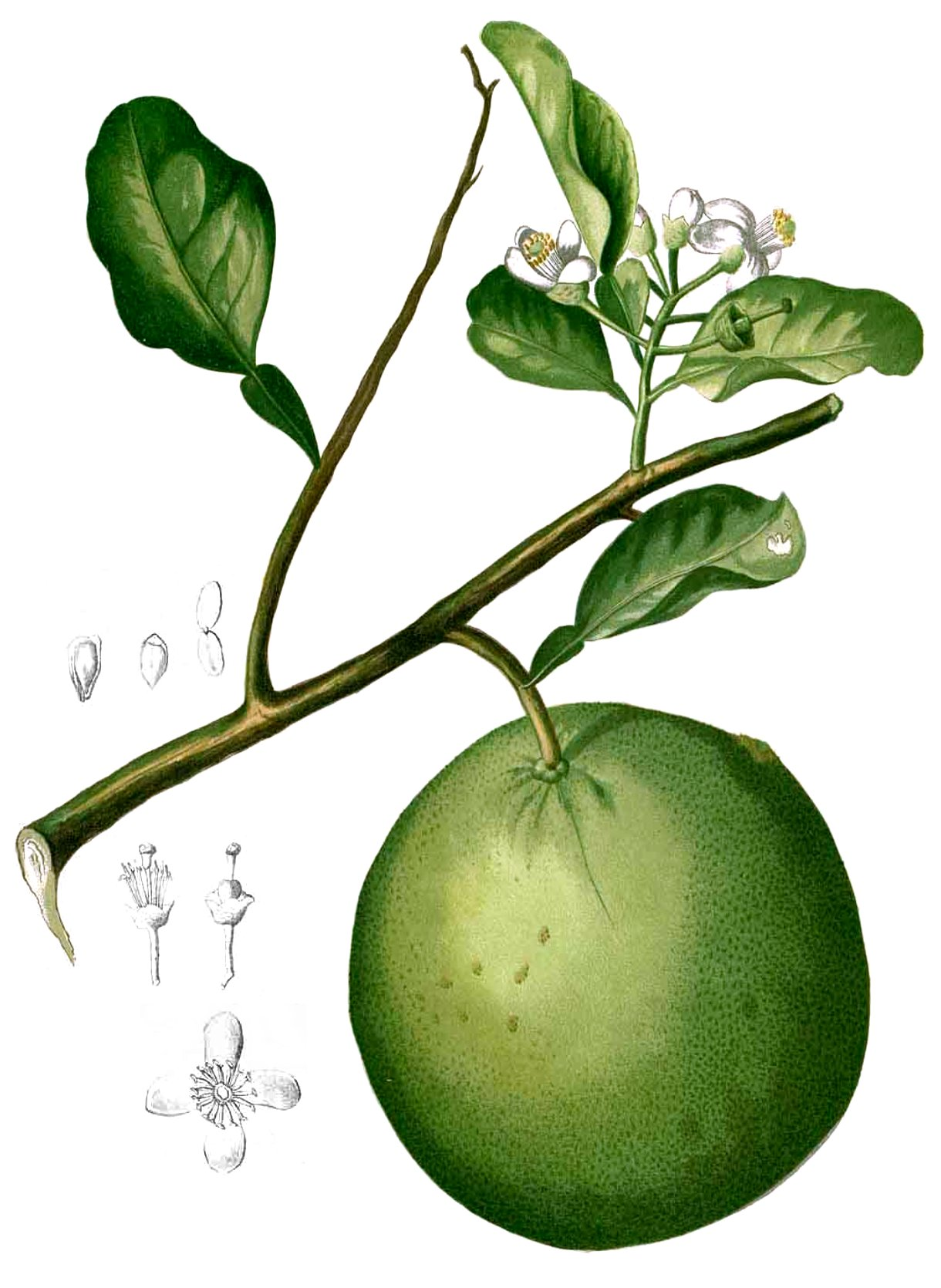 Plate from book